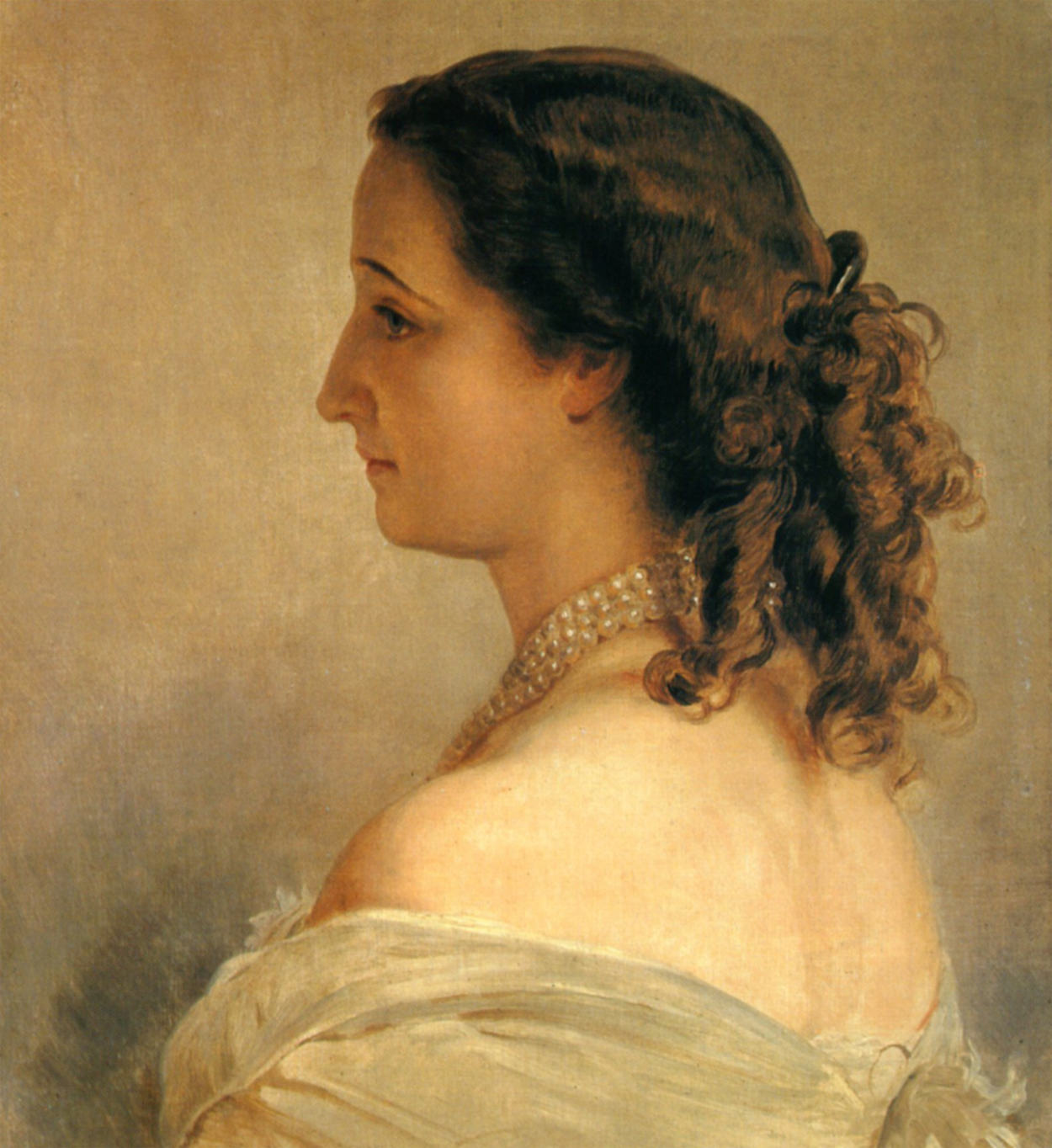 Empress Eugénie